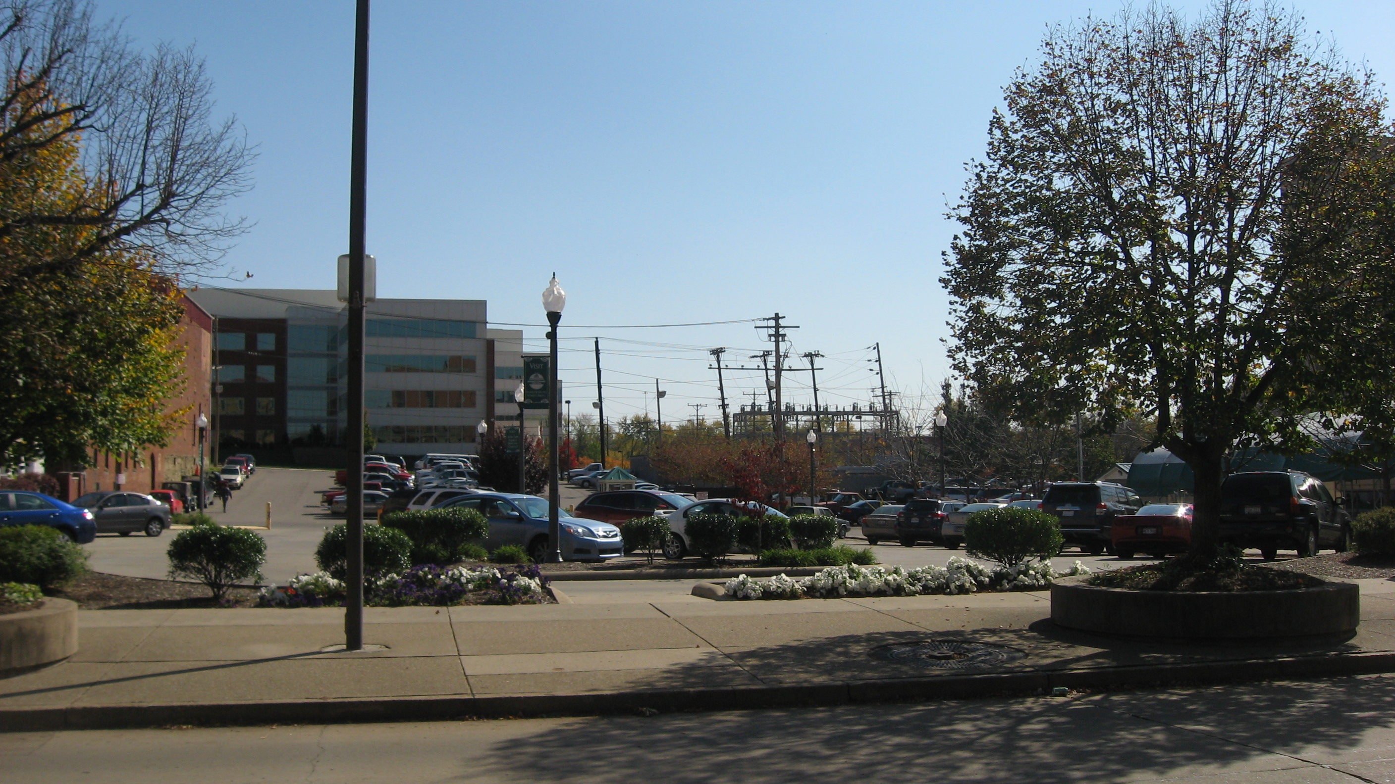 A parking lot at 310 Market Street in Parkersburg, West Virginia, United States. This was formerly the location of the Smith Building; built in 1898 and listed on the National Register of Historic Places in 1982, it has been demolished but has not yet been de-designated.